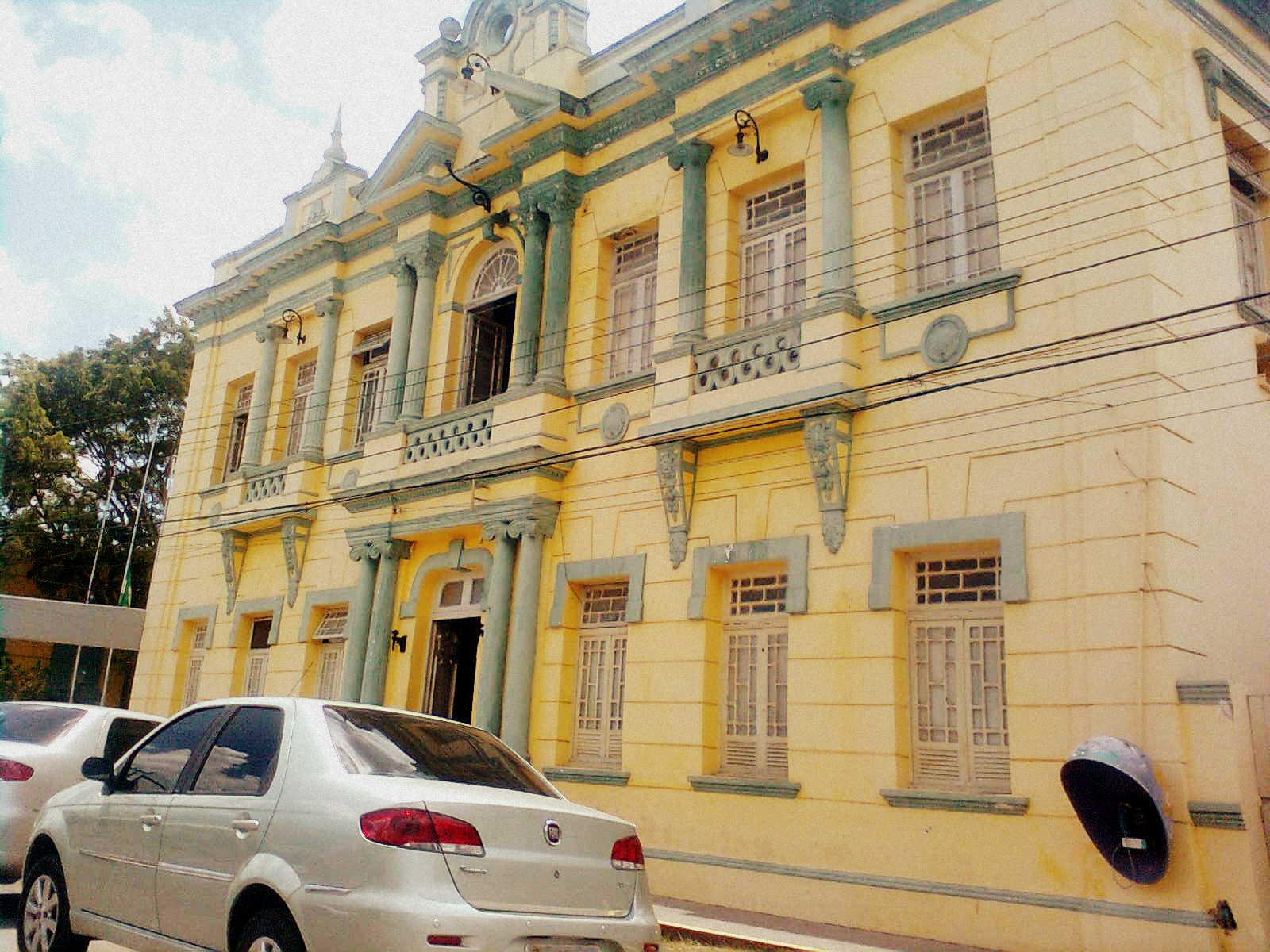 Goiana Downtown